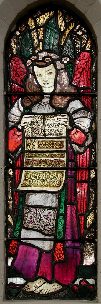 Stained glass window in St Peter's Clapham by Reginald Hallward. One of eight depicting the "Beatitudes". Here the inscription reads- "Blessed are the poor in spirit: For theirs is the Kingdom of Heaven".